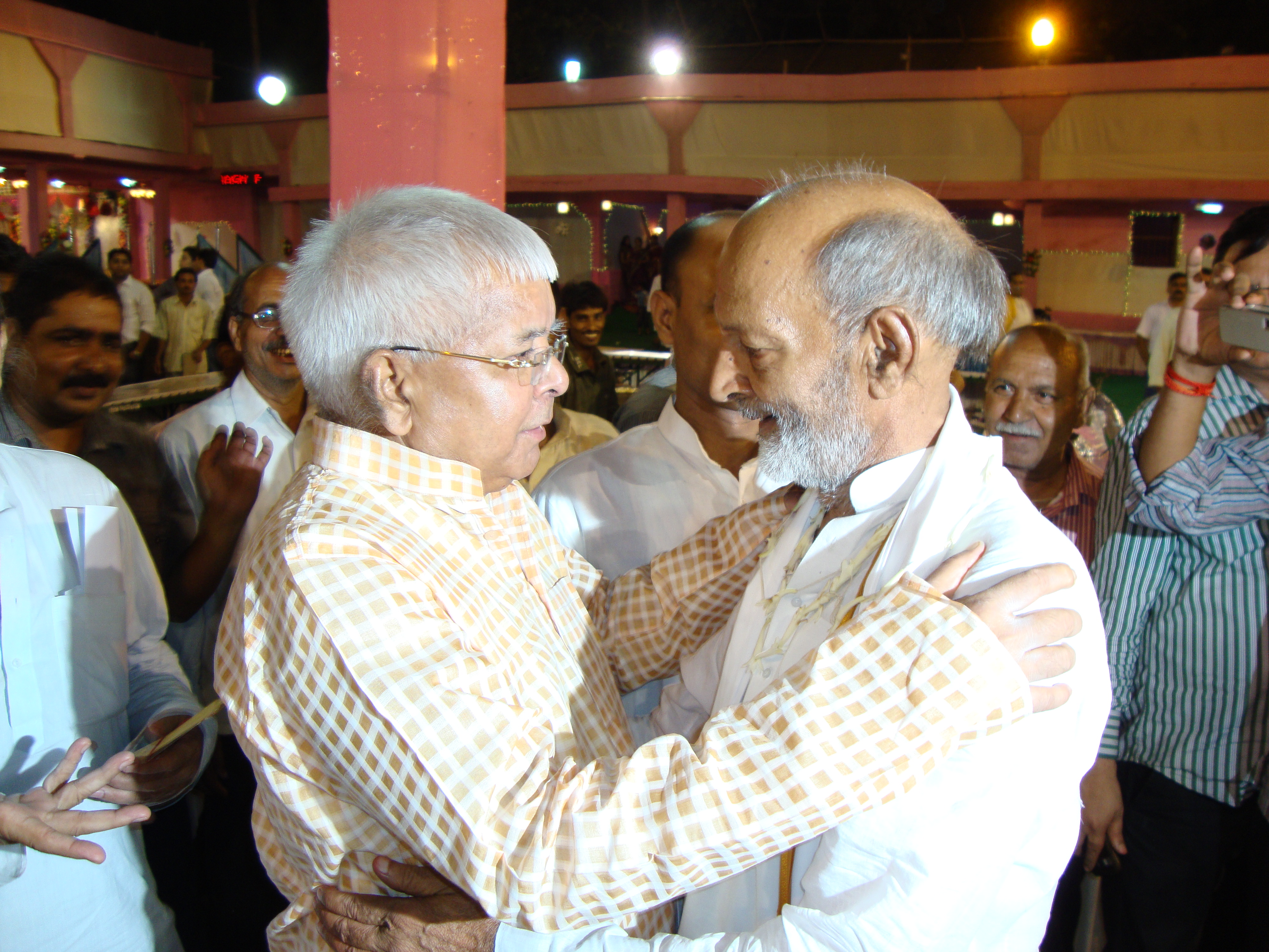 Lalmuni Chaubey with Lalu Prasad Yadav